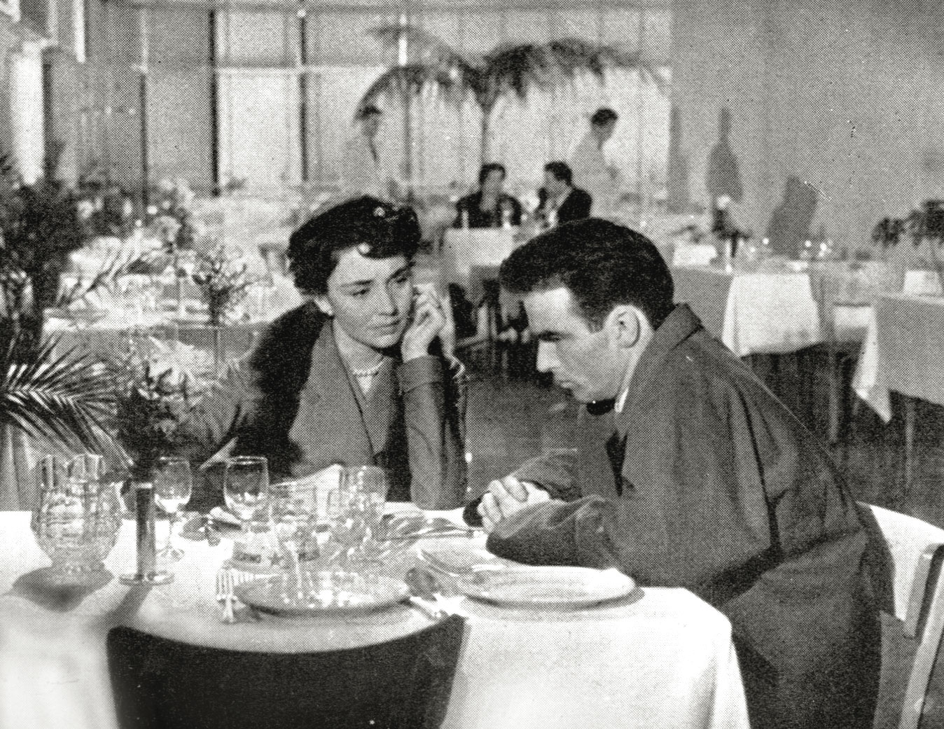 Stazione Termini (De Sica 1953)- foto di scena con Jennifer Jones e Montgomery Clift